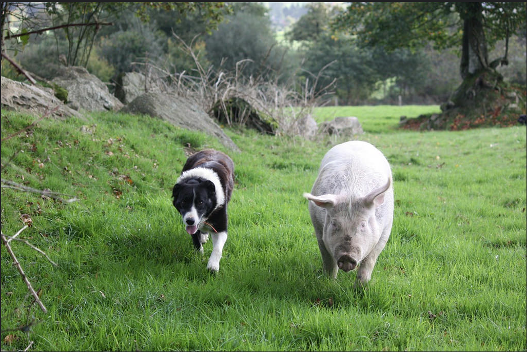 Pigs are as intelligent as dogs, form social bonds and can be kept as pets.